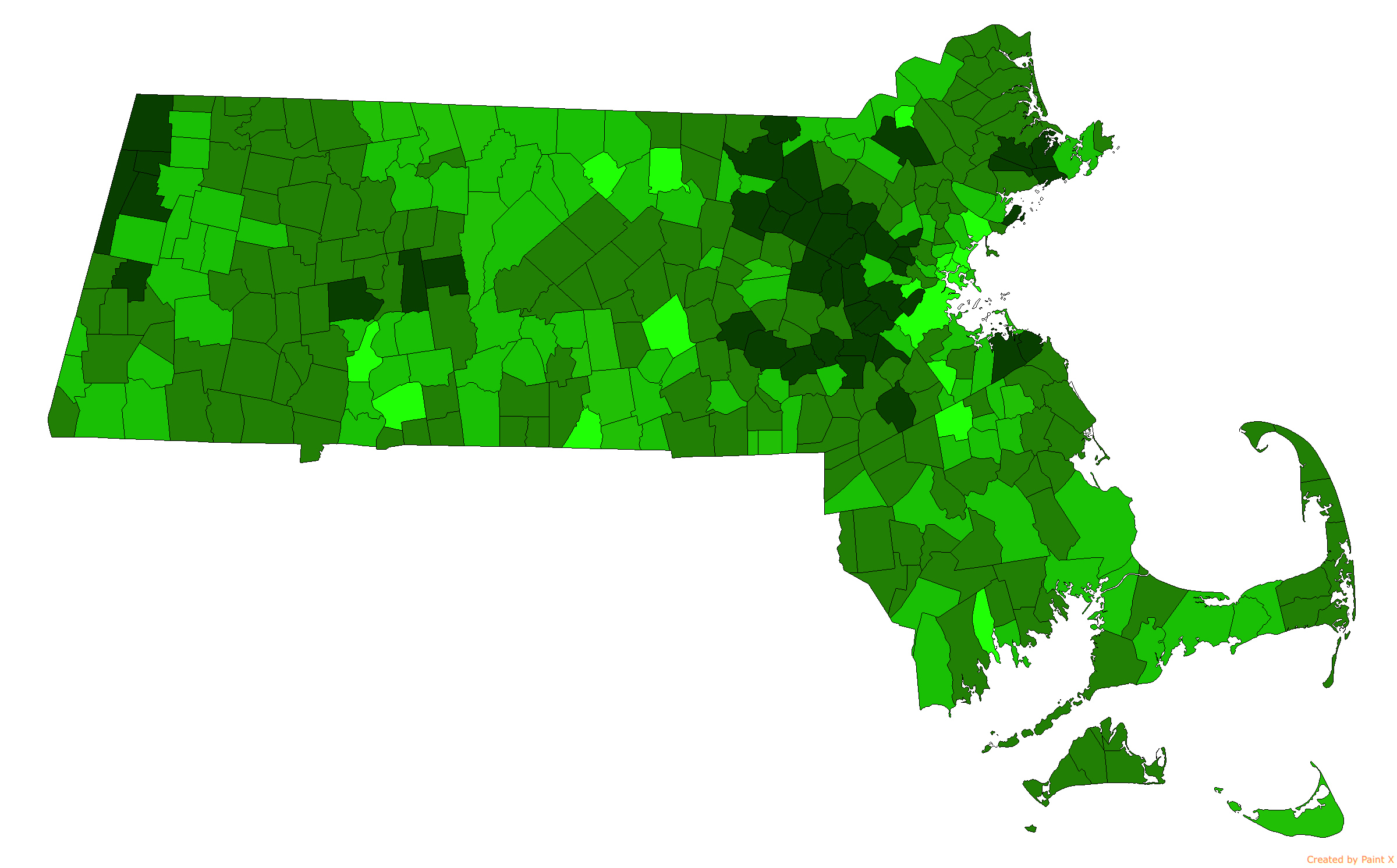 Towns in Massachusetts by combined mean SAT of their public high school district for the 2015-2016 academic year. (Does not include the combined mean SATs of regional vocational public high schools or public charter high schools.) Towns represented in the darkest green have school districts with a combined mean SAT above 1672 (more than a standard deviation above the mean for Massachusetts high schools). Towns represented in dark green have school districts with a combined mean SAT in the range of 1525 to 1672 (within a standard deviation above the mean for Massachusetts high schools). Towns represented in light green have school districts with a combined mean SAT in the range of 1377 to 1525 (within a standard deviation below the mean for Massachusetts high schools). Towns represented in the lightest green have school districts with a combined mean SAT below 1377 (more than a standard deviation below the mean for Massachusetts high schools). SAT data for school districts was procured at